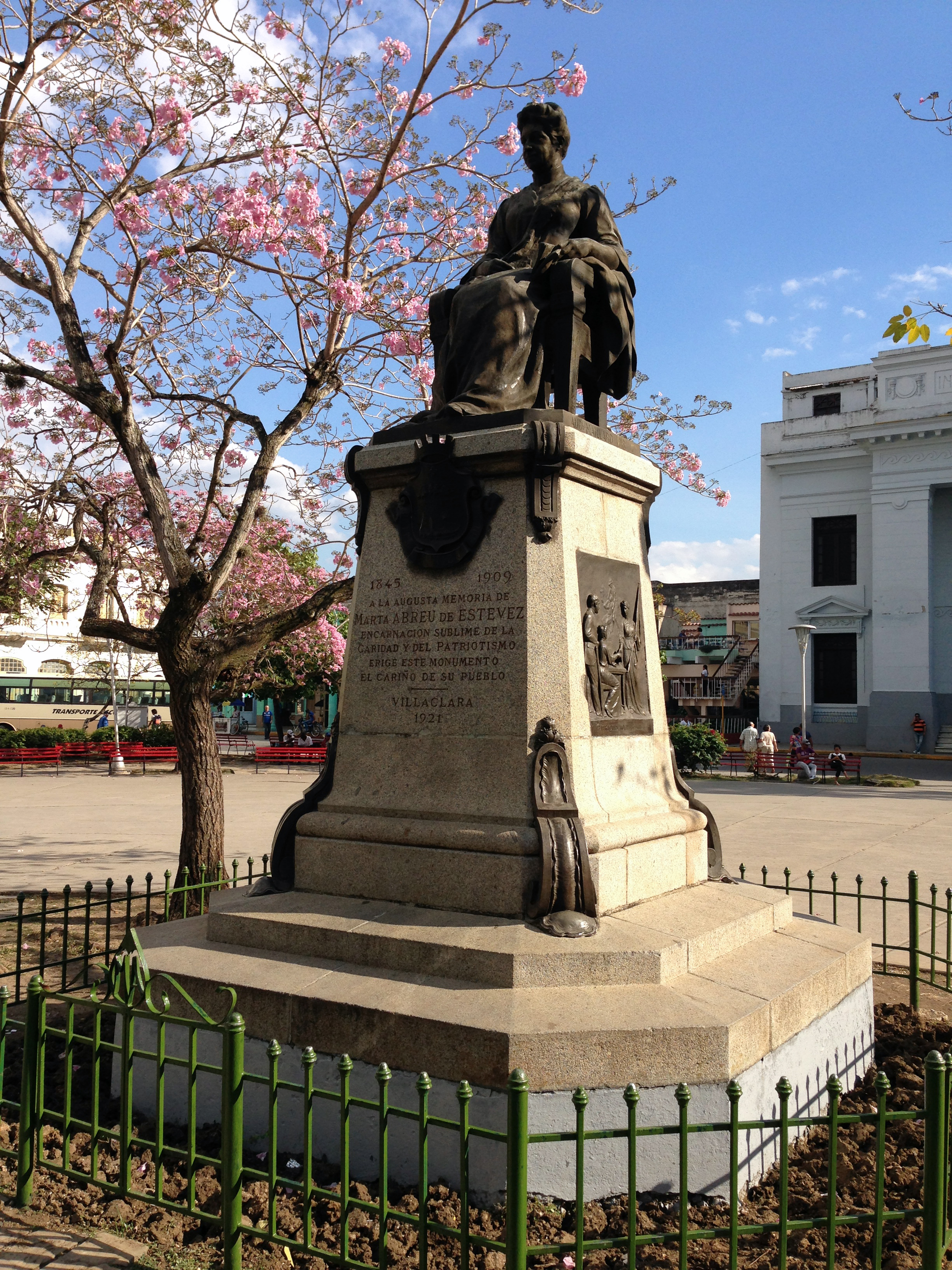 Monument to Marta Abreu de Estévez in Santa Clara, Cuba